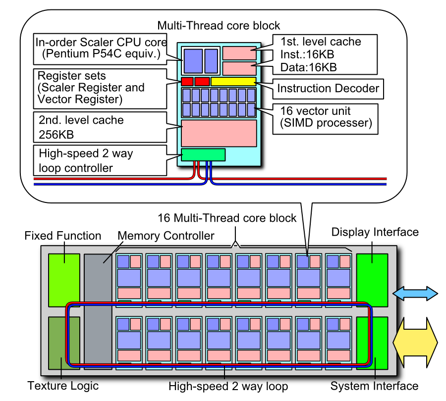 Larrabee block diagram (Total pic. and CPU core bloack).